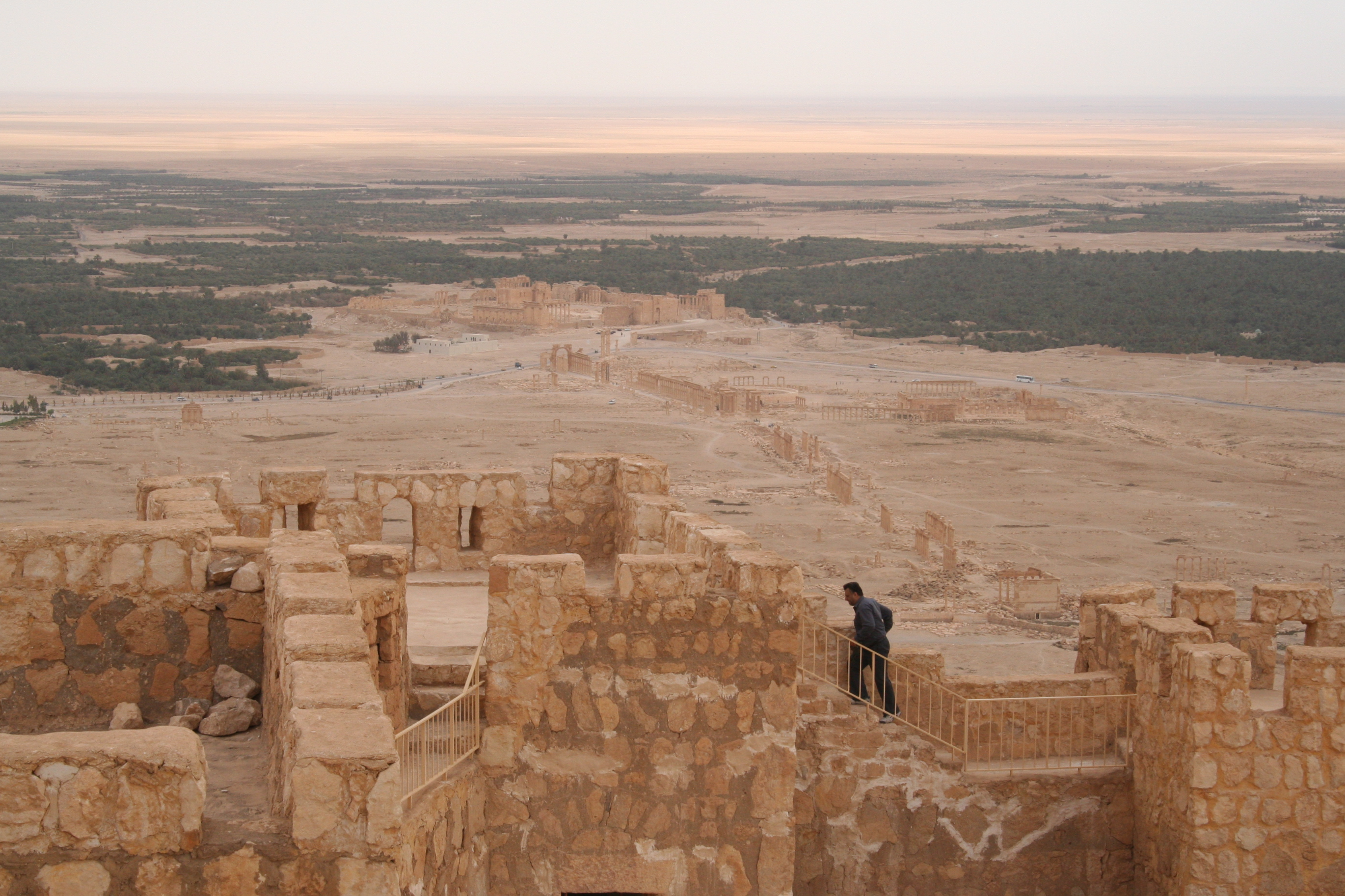 View over ancient places in Palmyra.